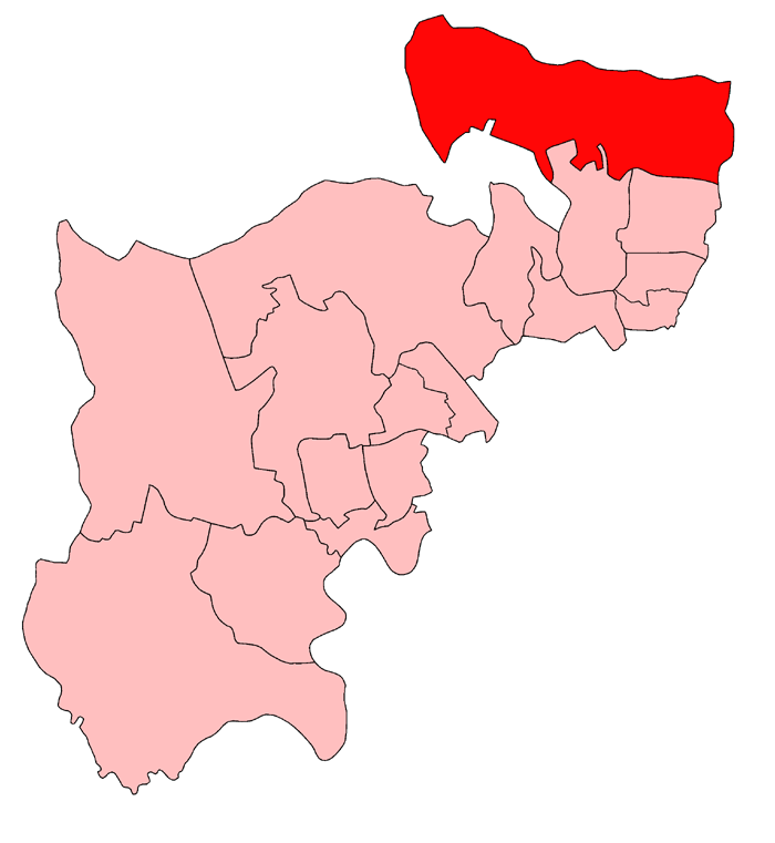 A map of Enfield constituency within Middlesex, as it existed from 1918 to 1950.